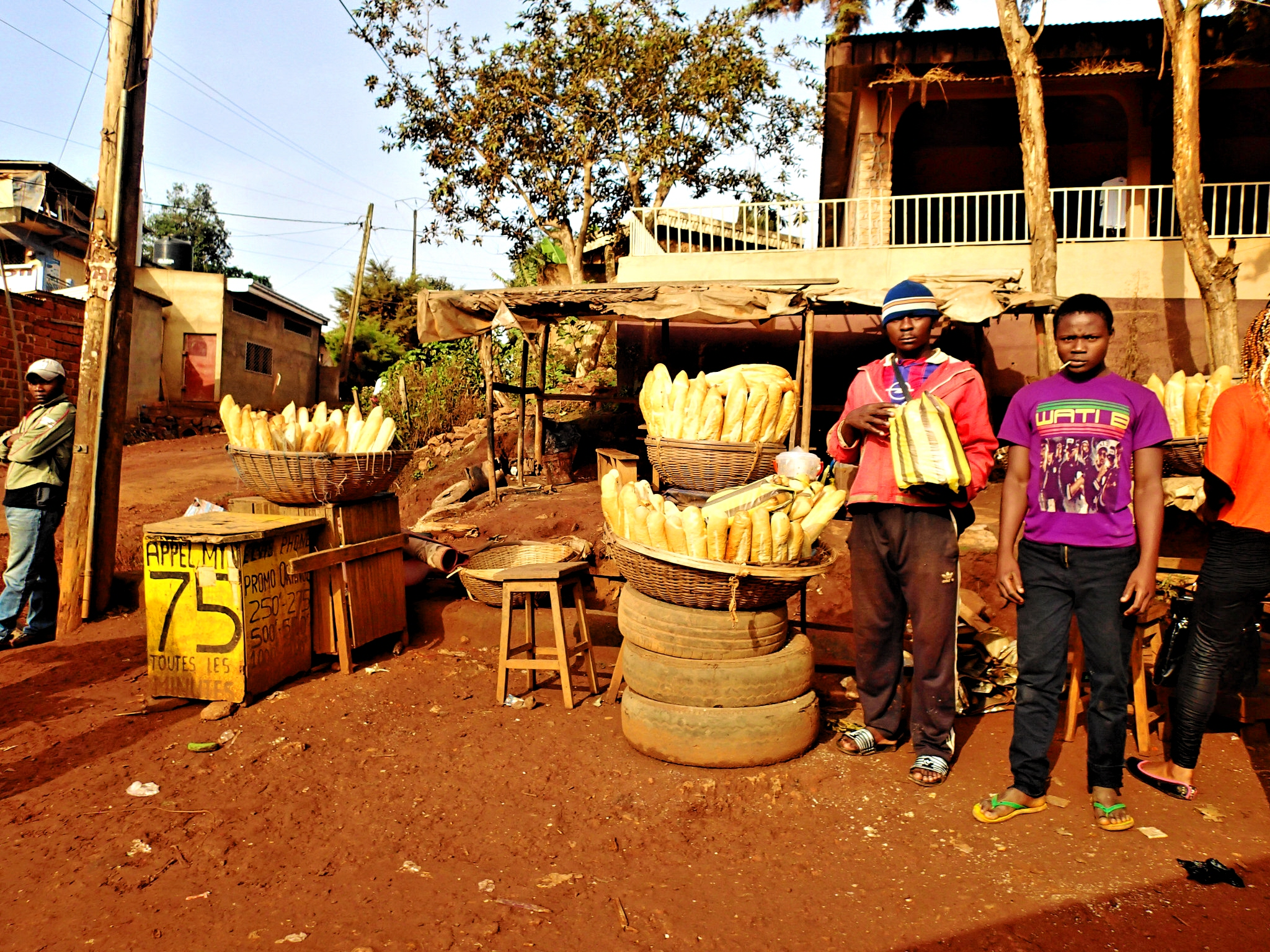 Baguettes stall, Dschang, Cameroon